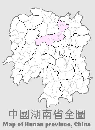 Maps of Hunana Province of China